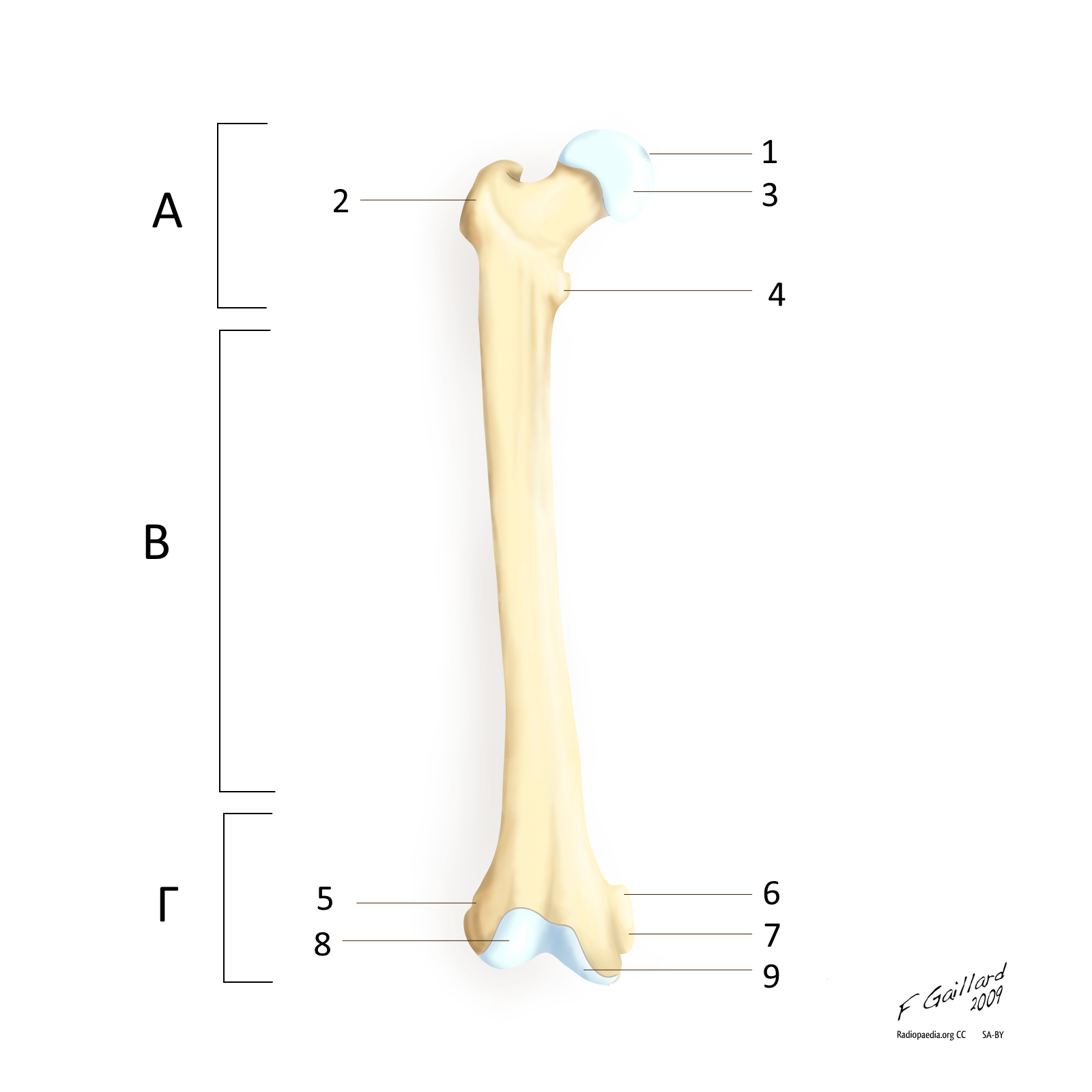 I replaced the words from the image with numbers so that I can translate them (Altick). For english go to the original file.